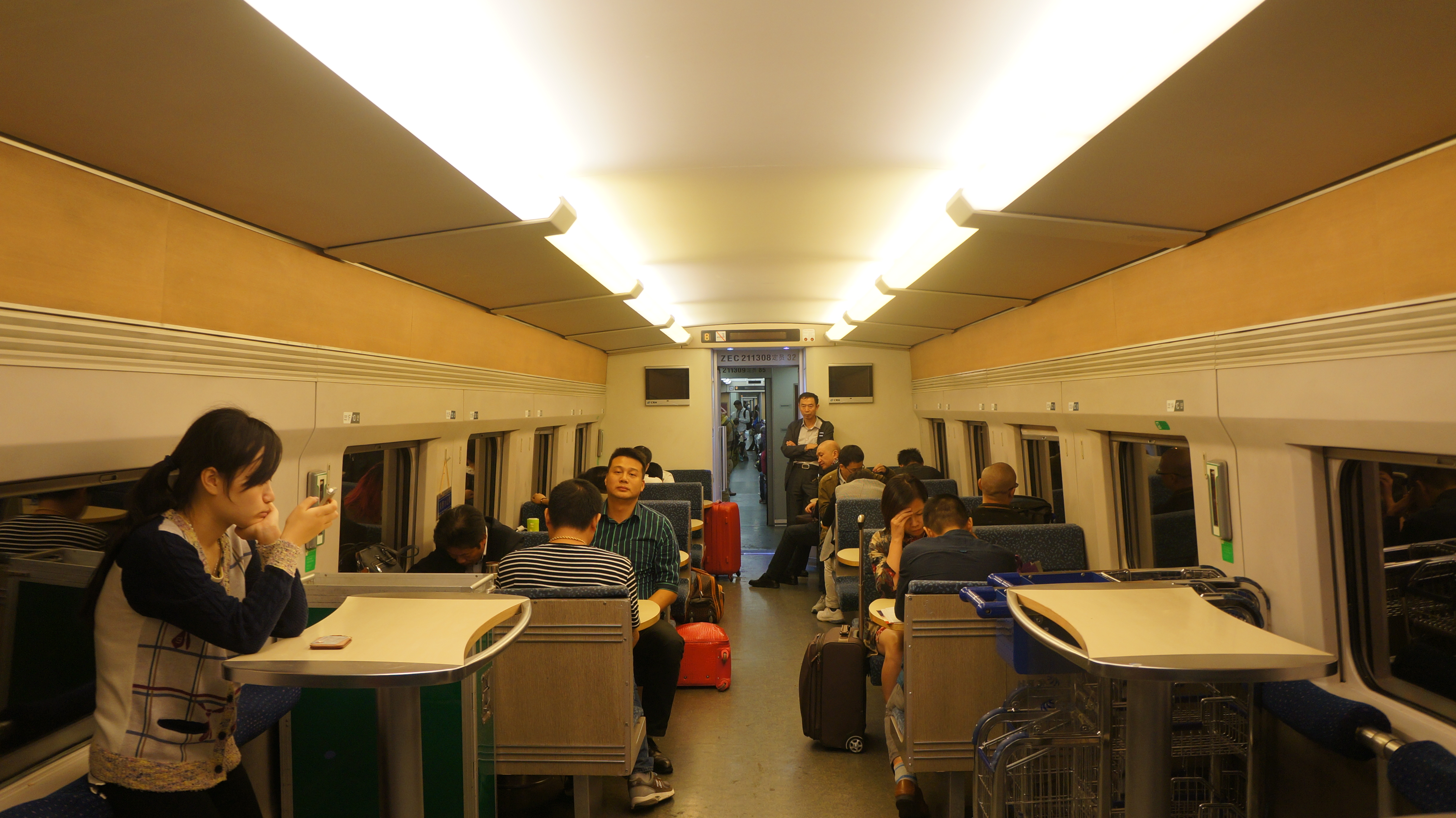 Buffet Car of CRH2B